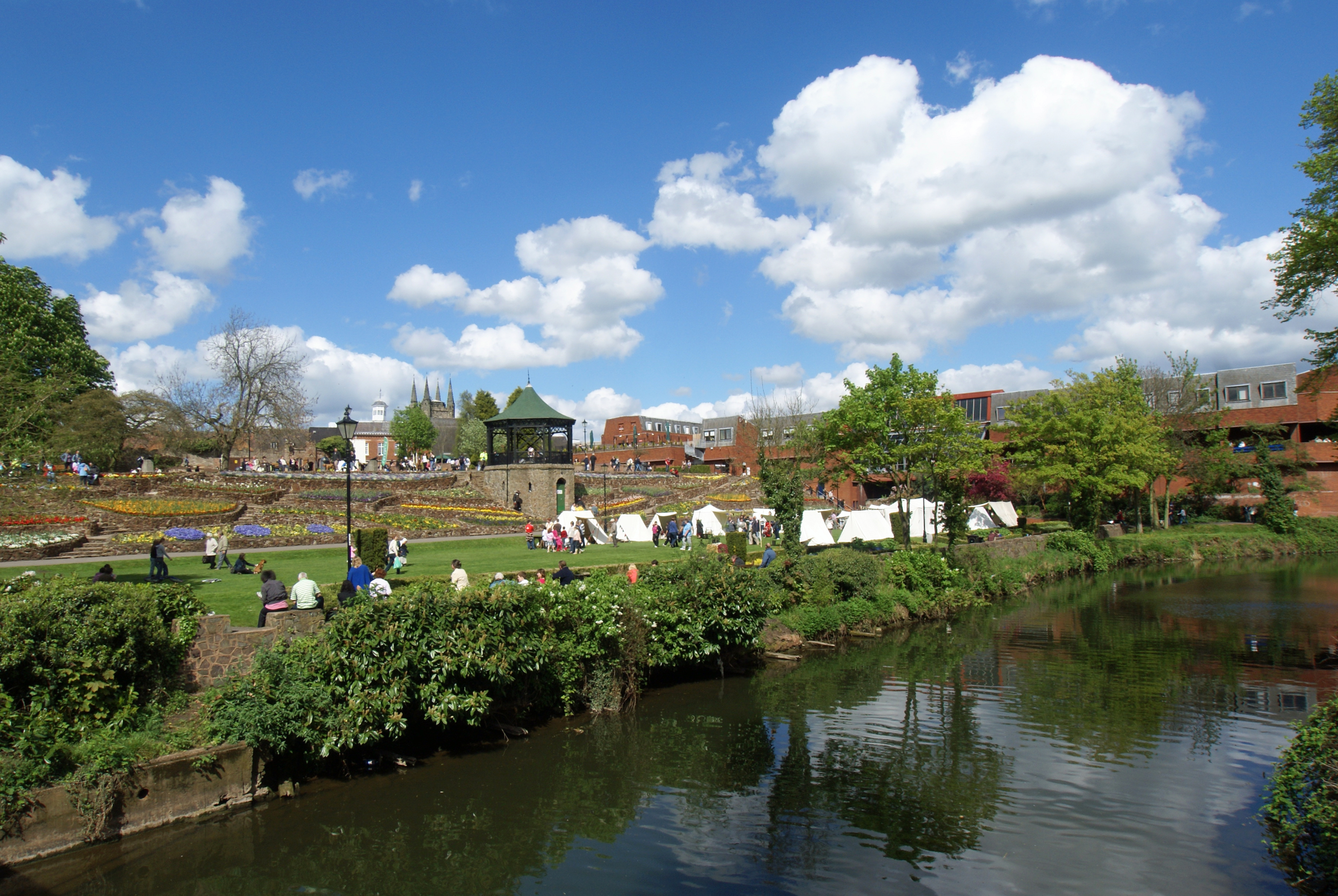 Tamworth (United Kingdom): The park and the River Anker